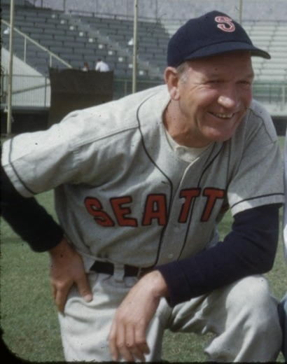 Seattle Rainiers manager Bill Sweeney. Apparently spring training in Palm Springs, California.